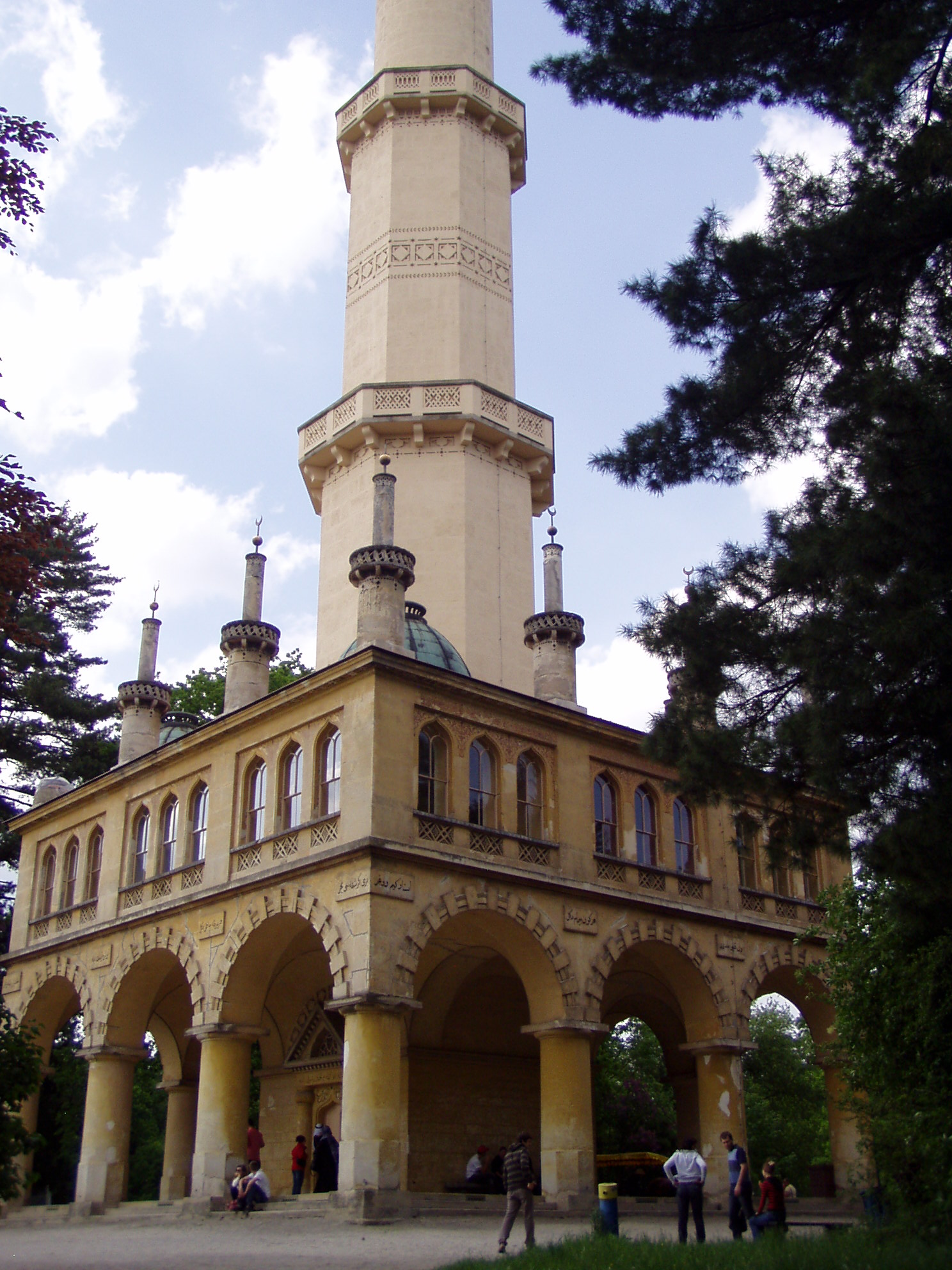 Close view of Lednice (South Moravia) Minaret.